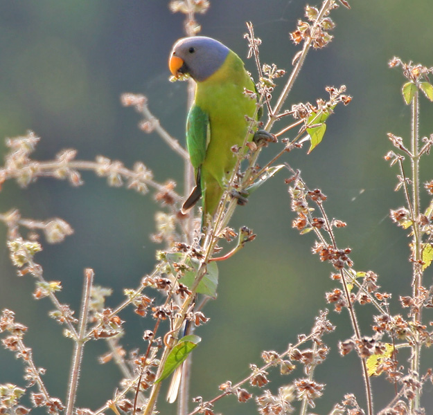 Plum-headed Parakeet Psittacula cyanocephala in Kawal Wildlife Sanctuary, Andhra Pradesh, India.